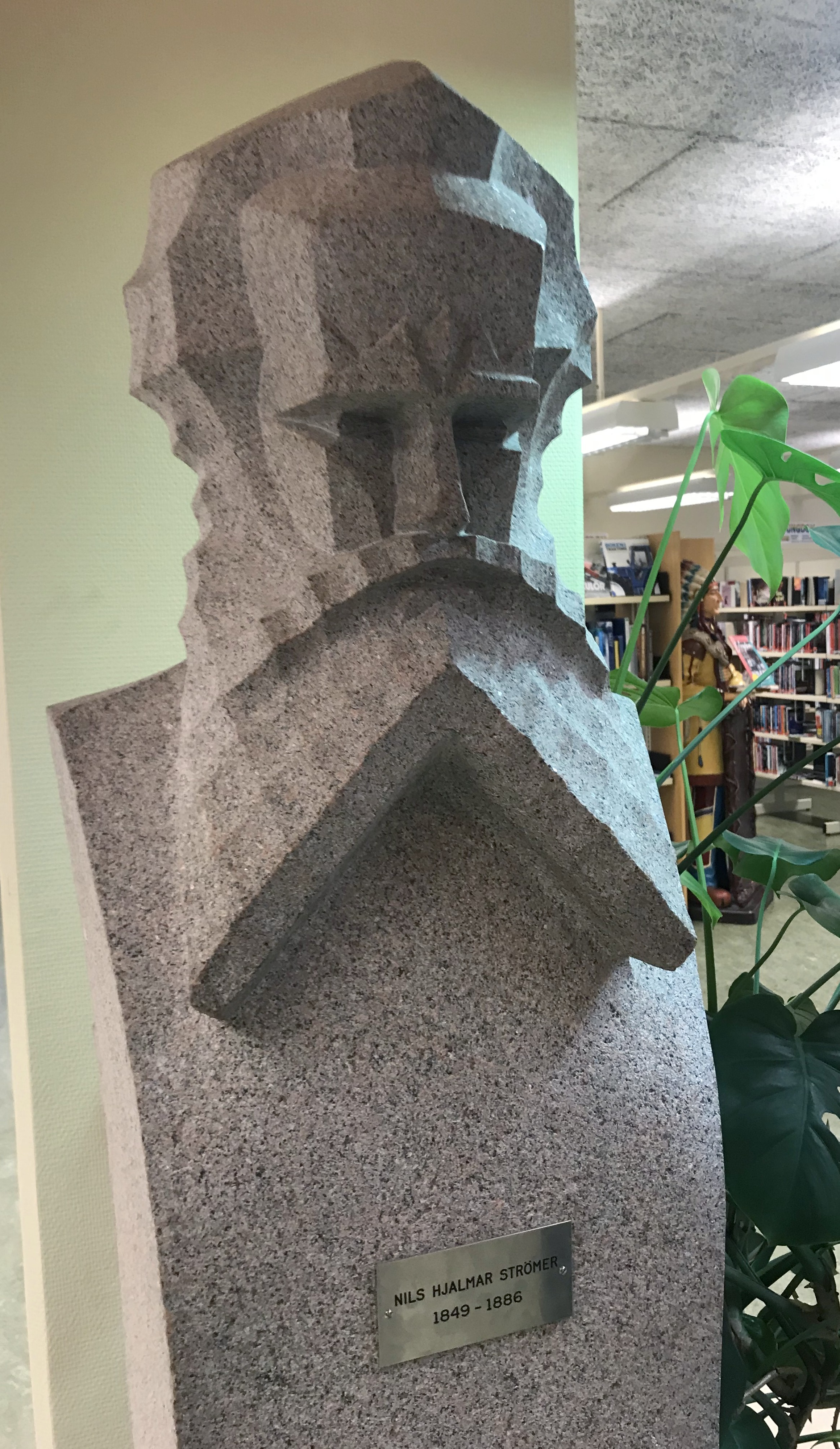 Hjalmar Strömer (1849-1886) - Swedish author.